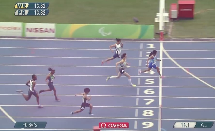 Yanina Martínez winning 100m T36. Paralympics Río 2016.